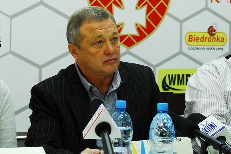 Foto of football coach Anatolij Piskovets